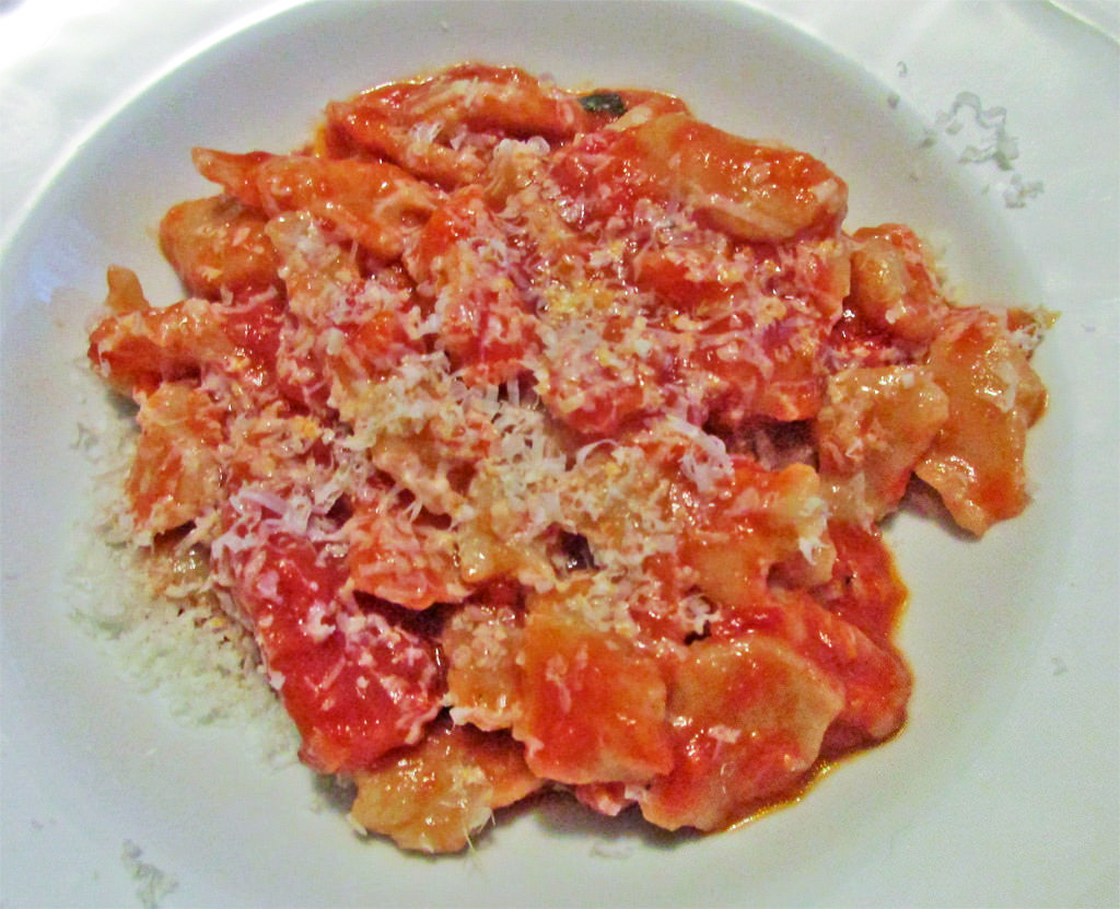 Pizzicotti, typical pasta pasta dish from the province of Rieti, Italy - step 9 out of 9 of the recipe described at this link